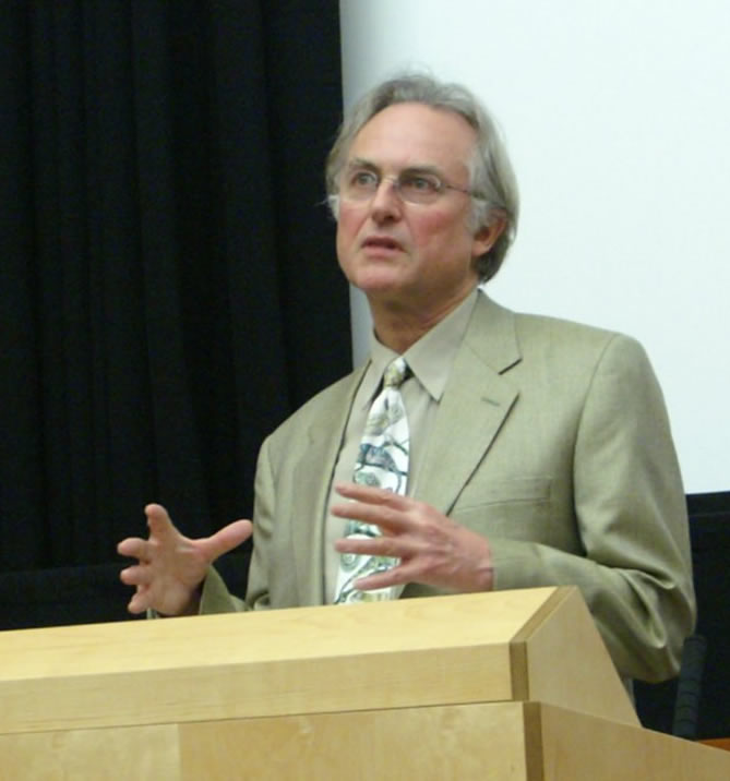 Professor Richard Dawkins.